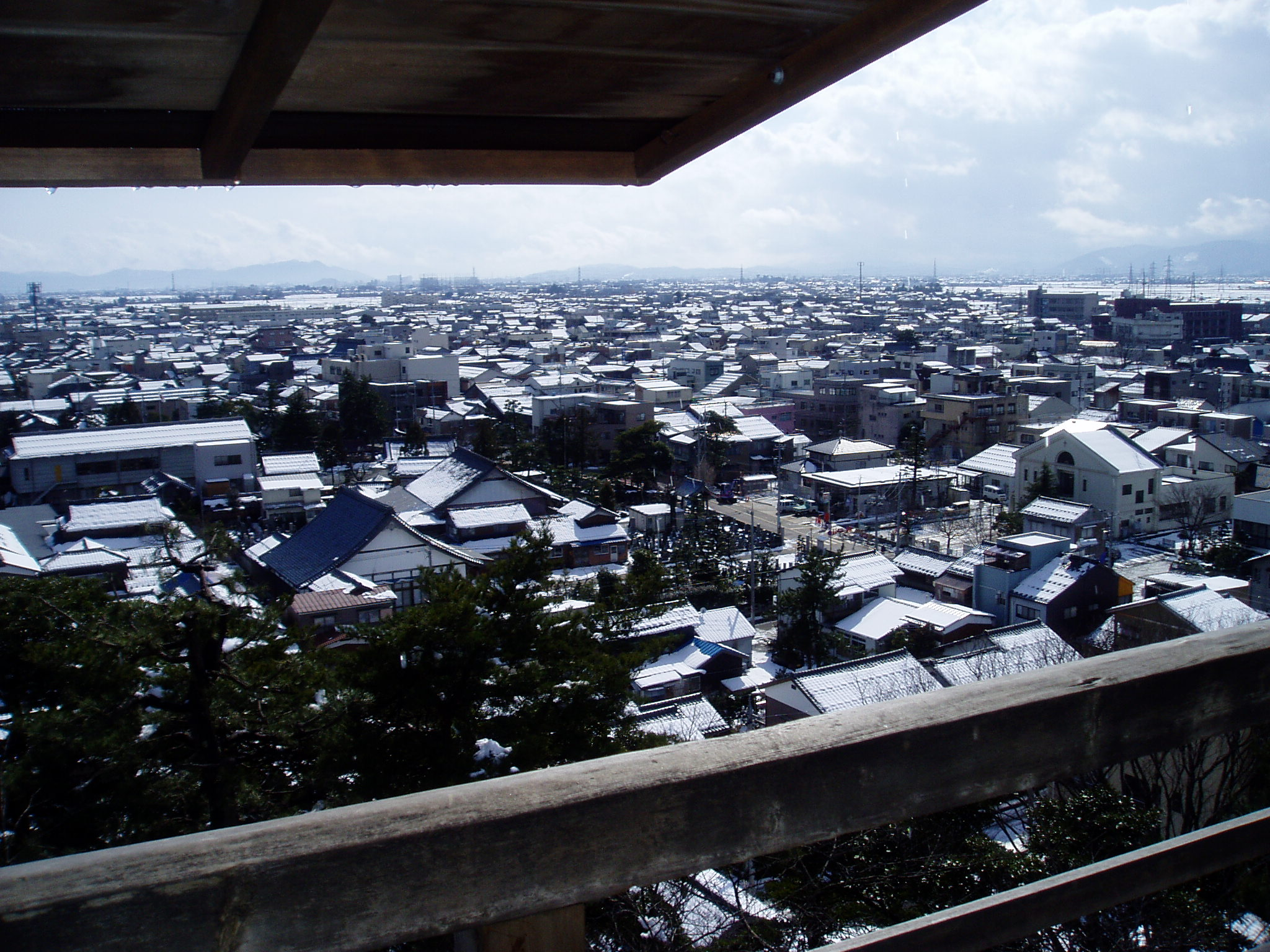 View from the Keep of Maruoka Castle